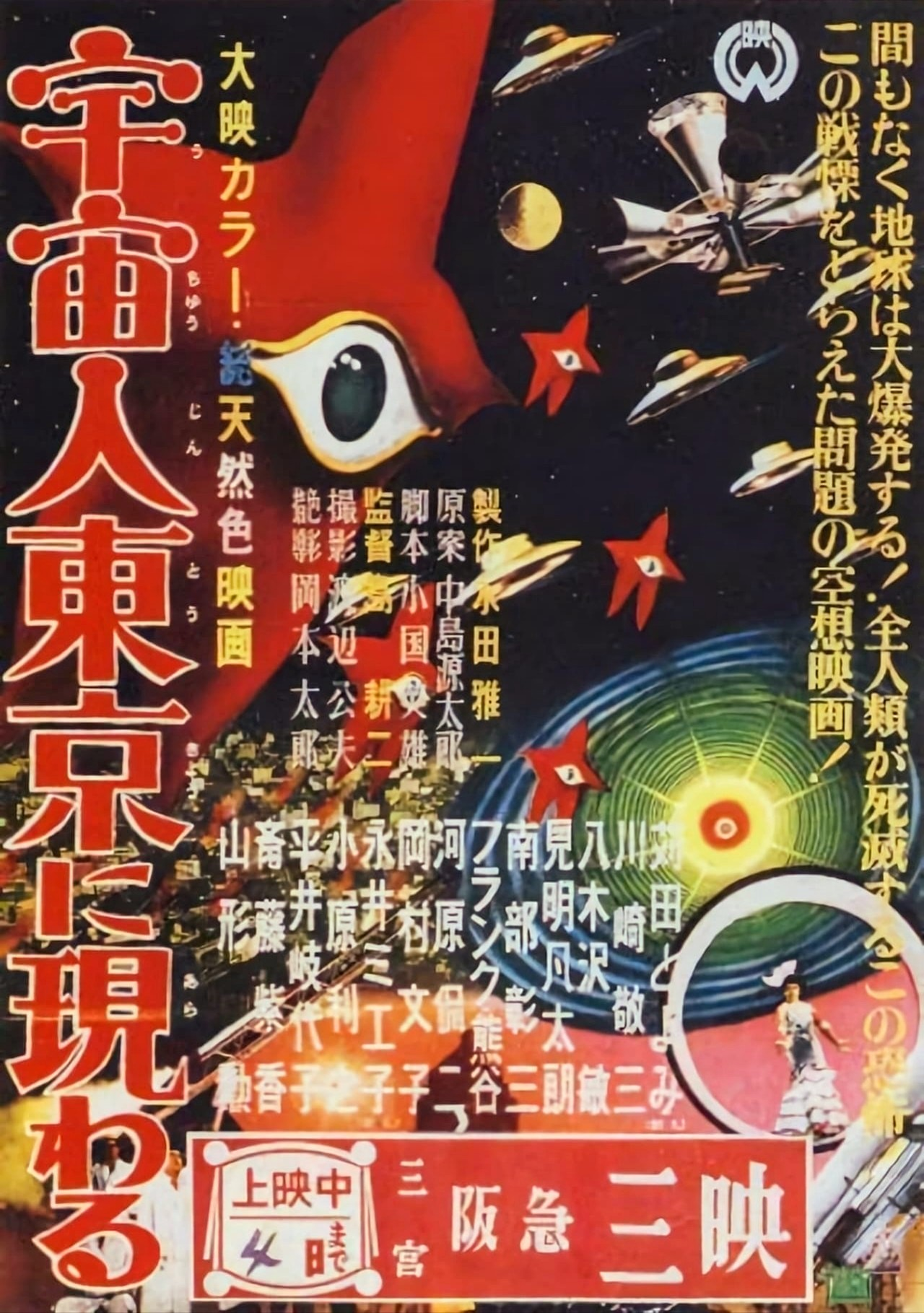 1956 Japanese movie poster for 1956 Japanese movie Warning from Space or Mysterious Satellite (宇宙人東京に現わる, Uchūjin Tokyo ni arawaru, lit.: Spacemen Appear in Tokyo).